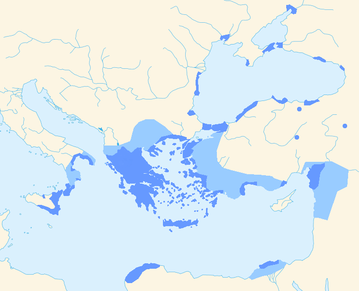 Hellenistic Greek or Koine Greek: Areas where Greek speakers were probably the majority. Intensely hellenised areas with a significant Greek minority.